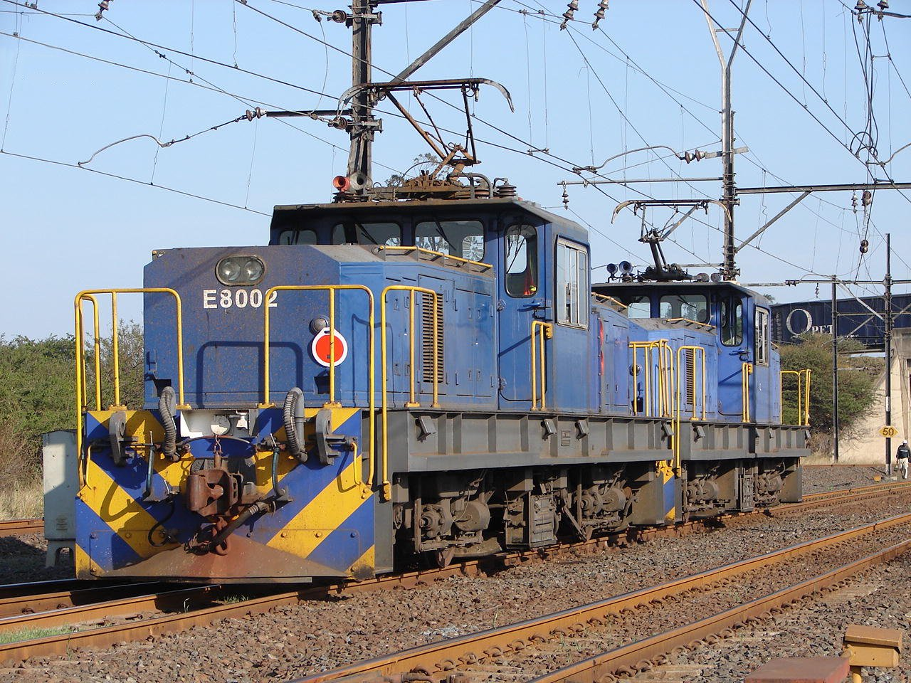 SAR Class 8E E8002 Location: Mandini, Kwa-Zulu Natal